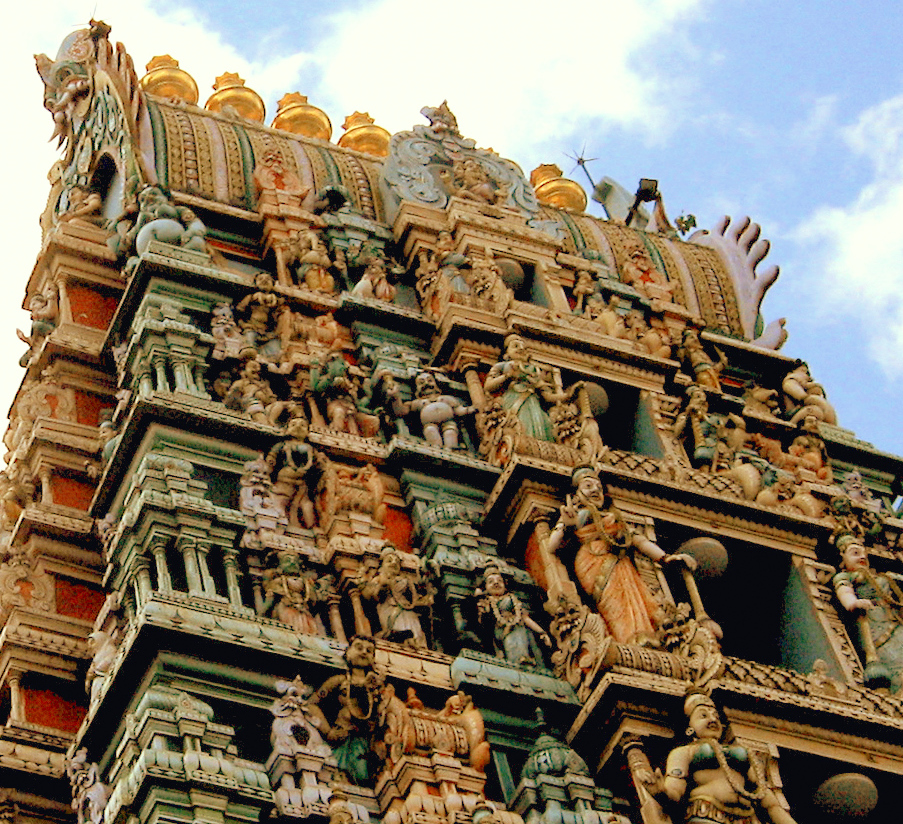 View of Sivakasi Mariamman Temple Gopuram in a cloudy day.